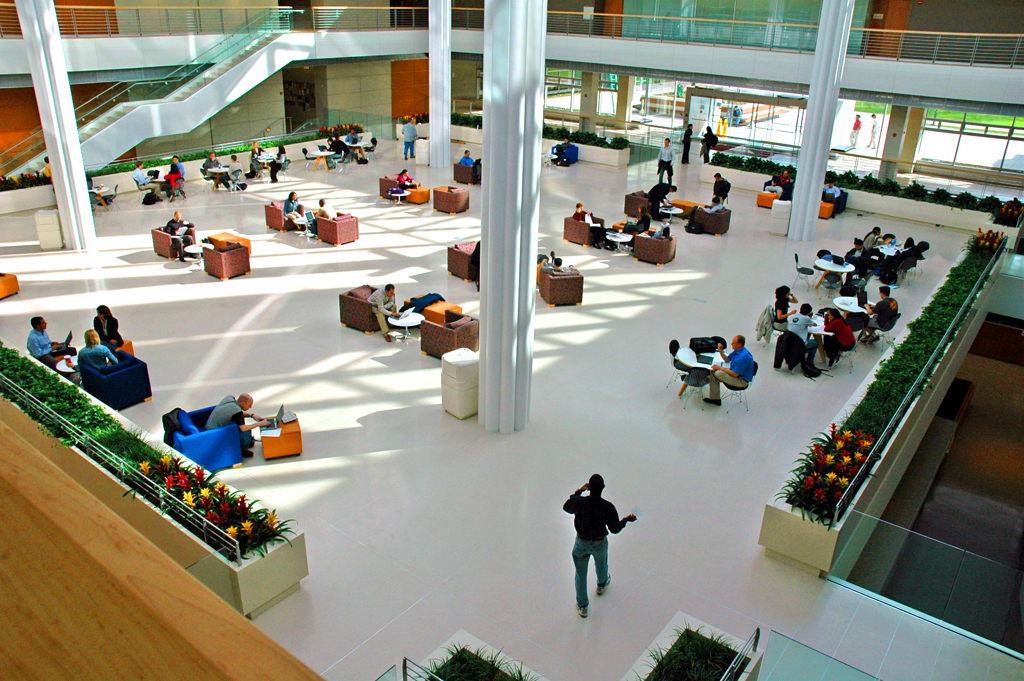 The interior of the University of Chicago's Graduate School of Business in Chicago, Illinois